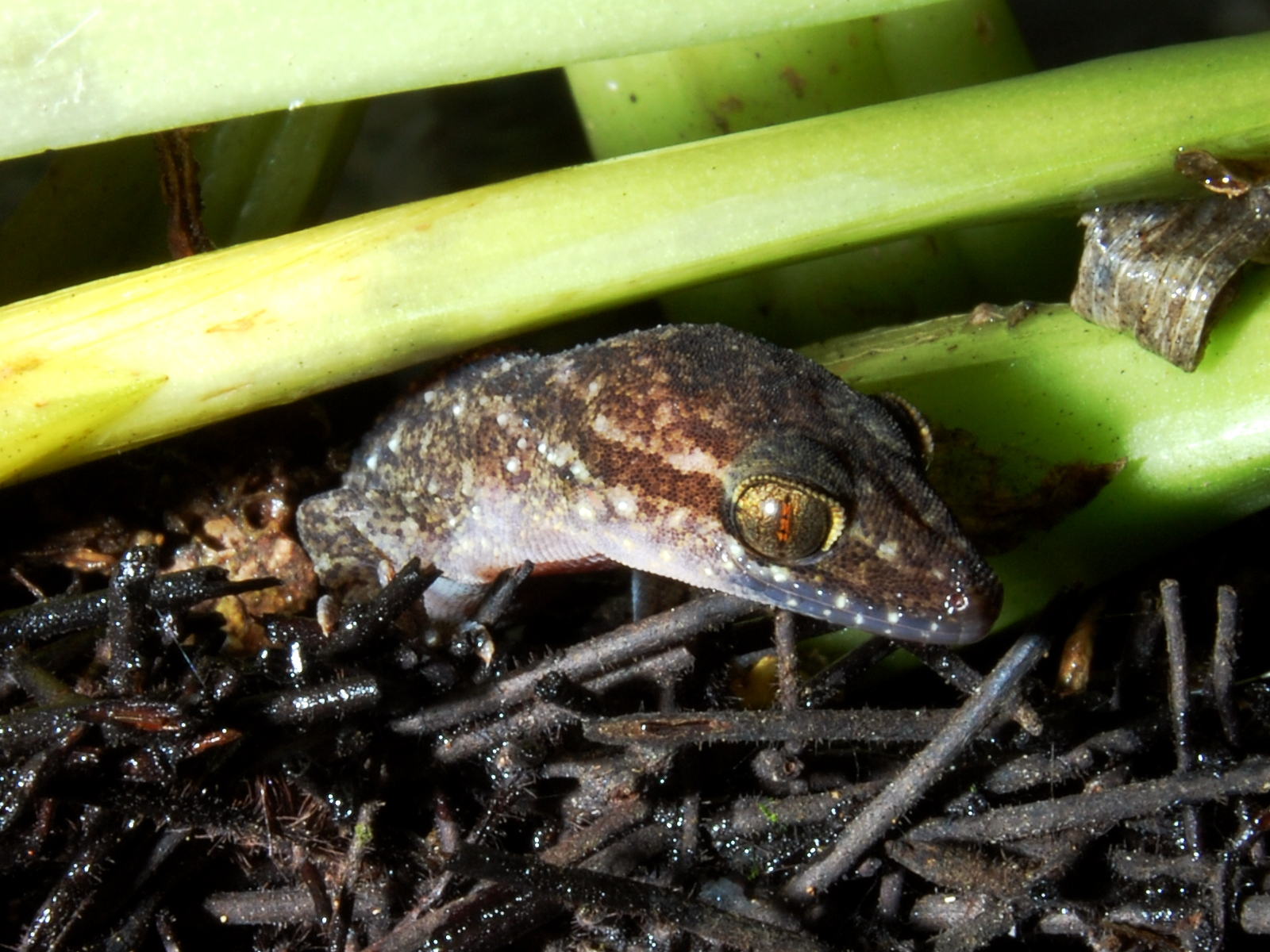 Cyrtodactylus marmoratus head close-up; from Darmaga, Bogor, West Java, Indonesia.